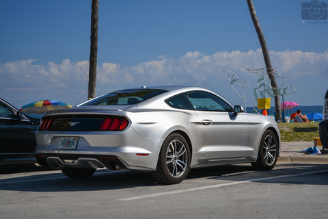 The 2015 Ford Mustang in southern Florida.